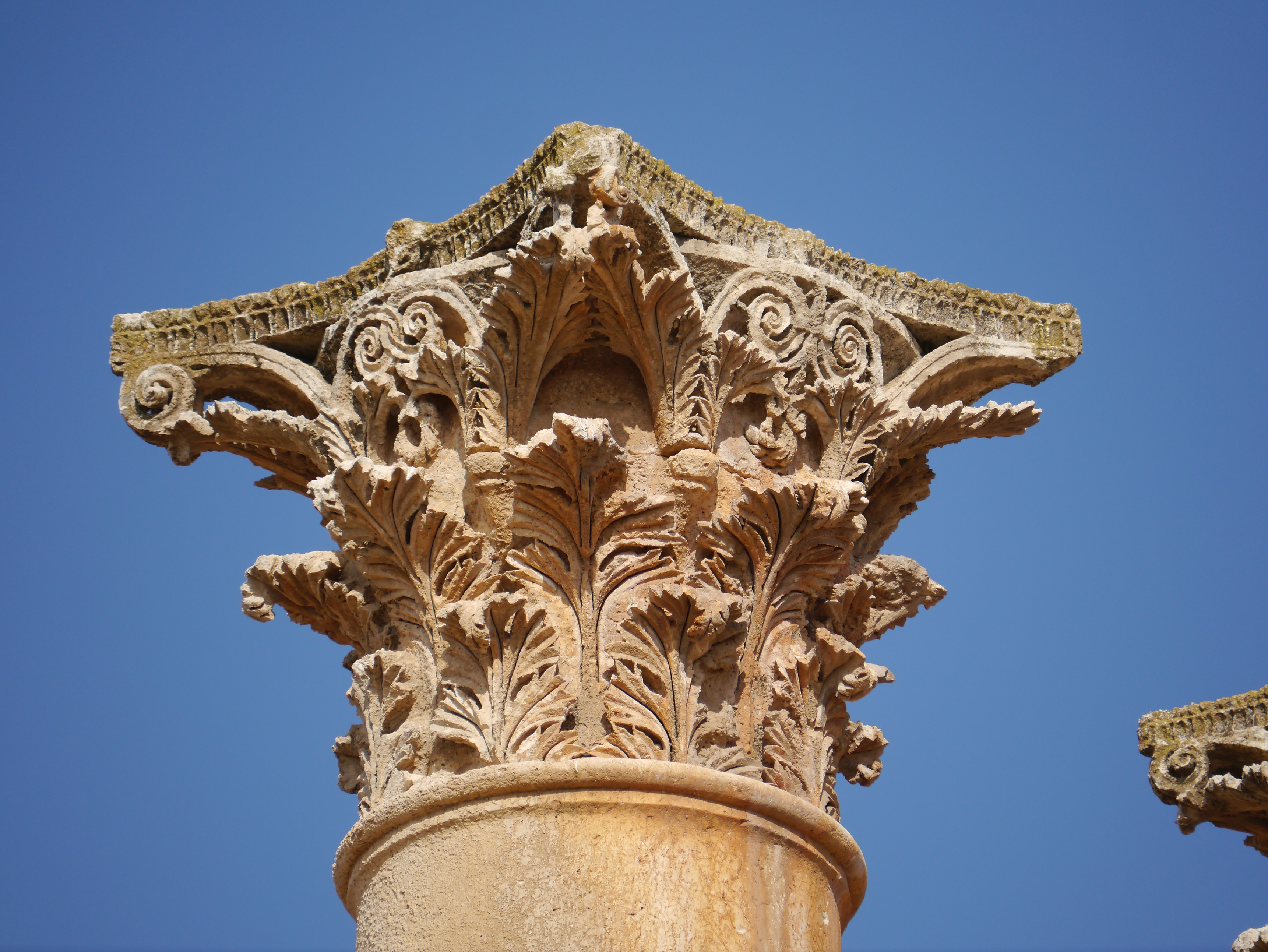 Pillars of the Temple of Artemis, Gerasa/Jerash, Northwest Jordan